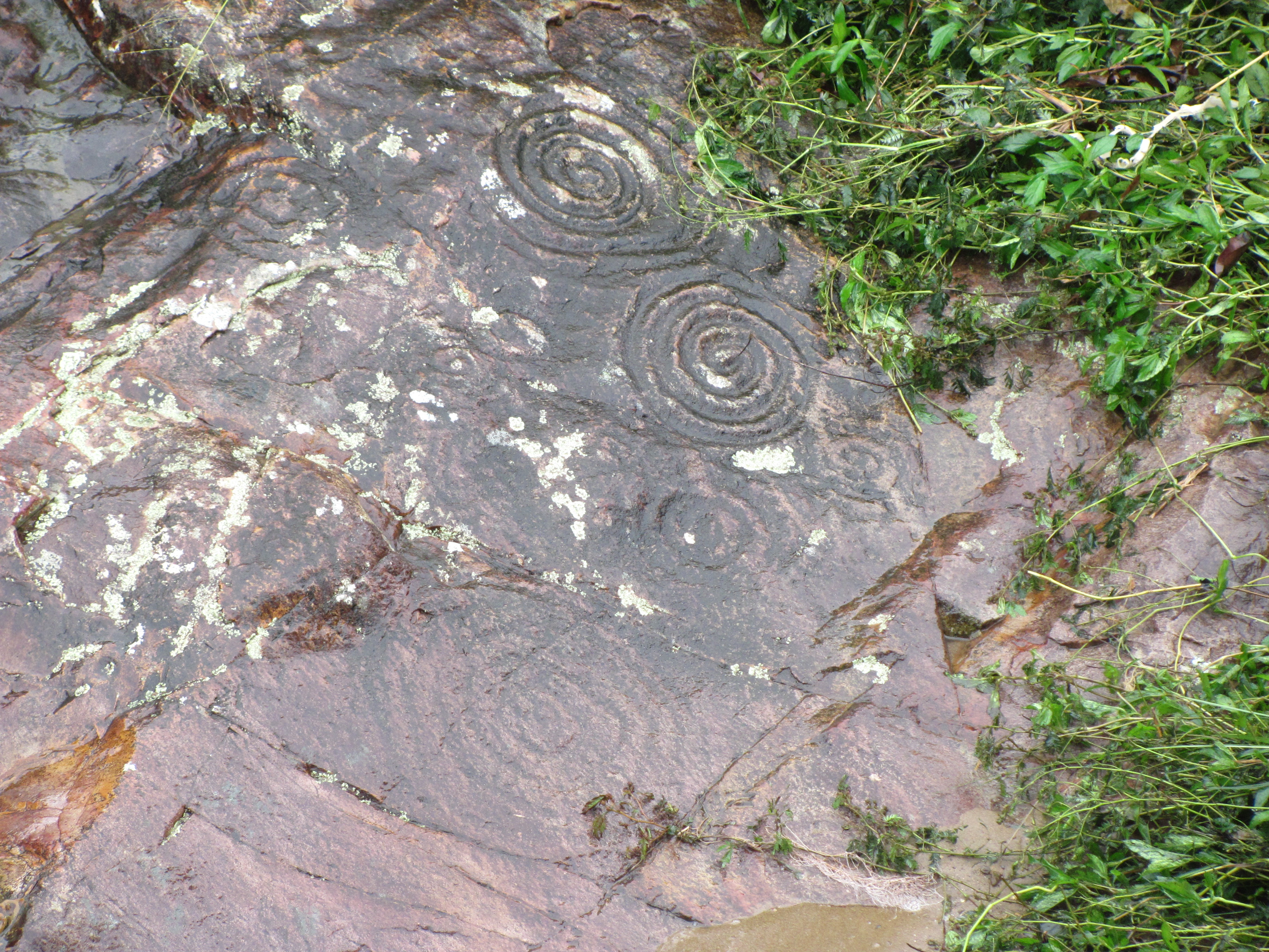 Rock carvings near Païta, New Caledonia